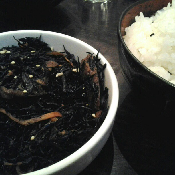 Hijiki (black seaweed and veggies) with steamed rice Baked frozen vegetable sausages and peas